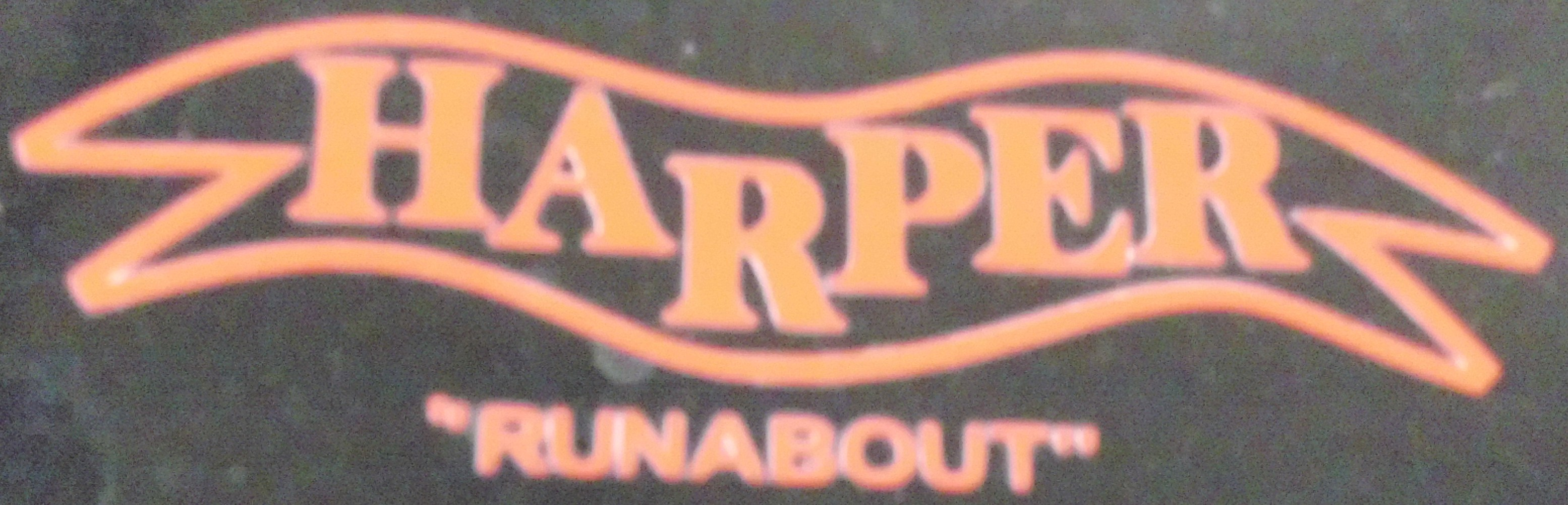 Emblem Harper Runabout